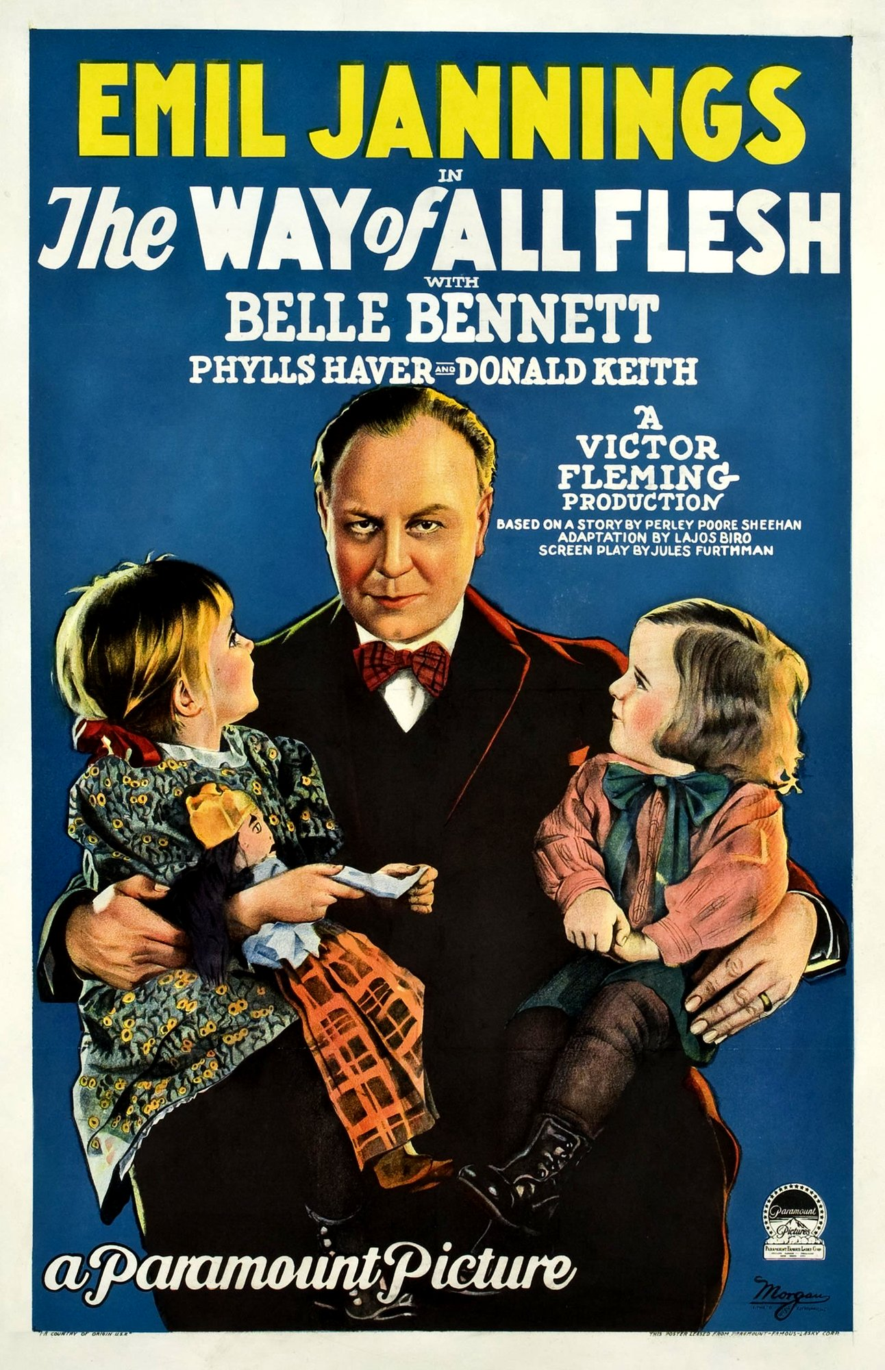 Poster for the American drama film The Way of All Flesh (1927). There are no copyright markings pertaining to the image as can be seen in the links above. At bottom of the uncropped poster is Country of origin USA, the Morgan Litho Company logo--they printed the poster--and This poster leased from Paramount Famous Lasky Corp.